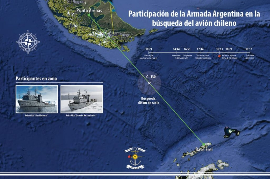 Map with information about the 2019 Chilean Air Force C-130 disappearance, with notes about the participation of the Argentina Navy on the search of it.